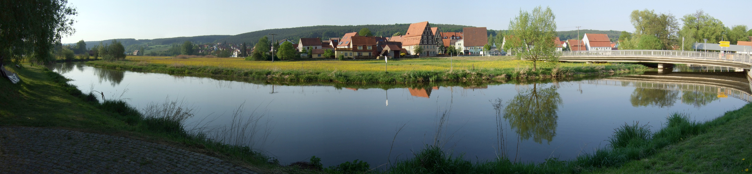 River Rezat, near Spalt, 4 pictures stitched